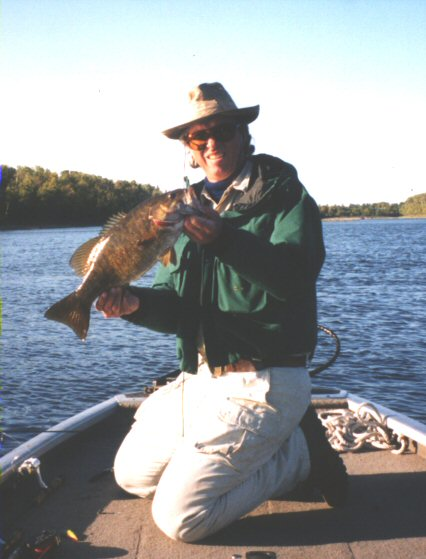 Smallmouth Bass from the Rainy River near International Falls, Minnesota (Released)